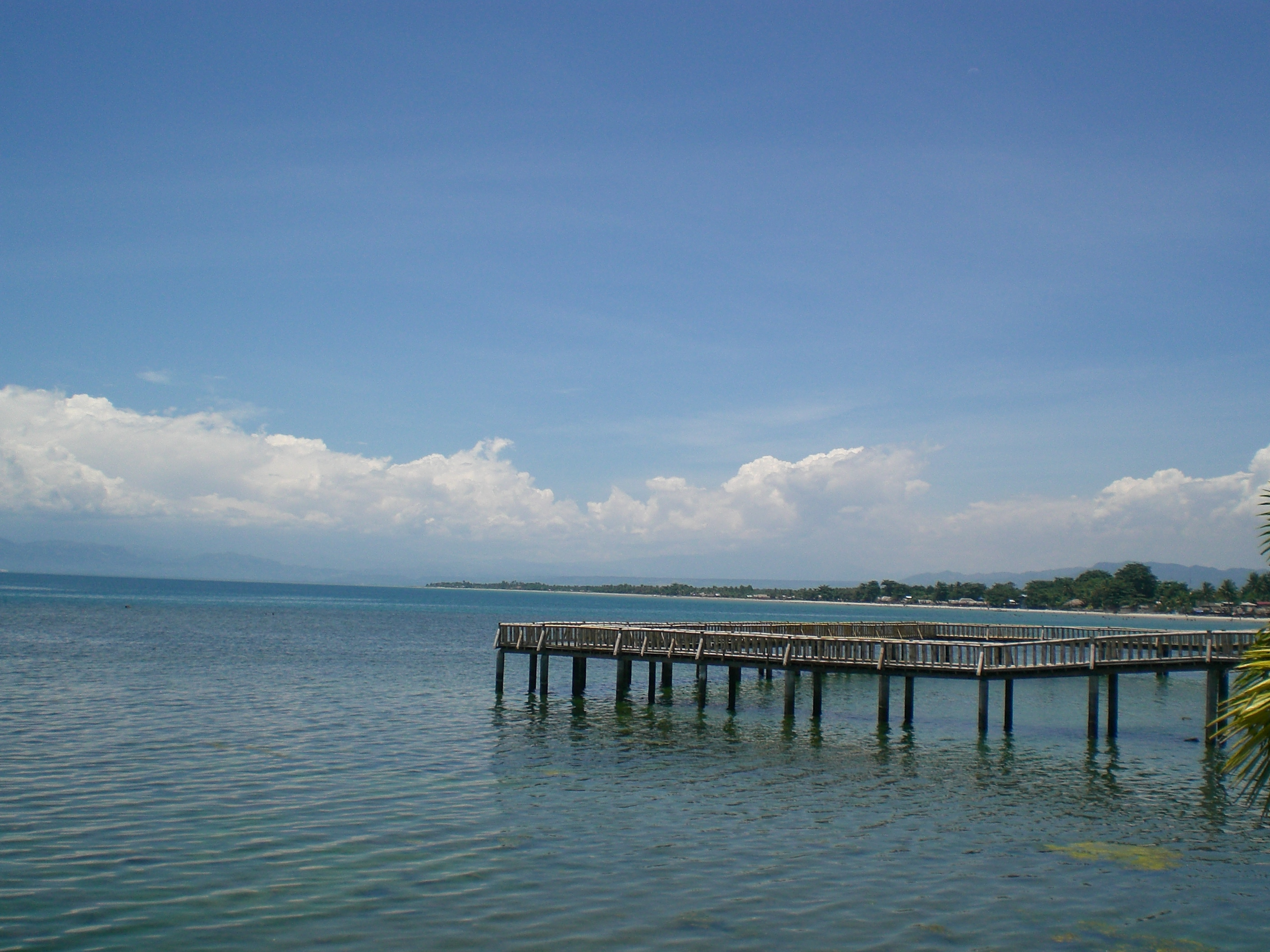 Opol beach front facing Macajalar Bay